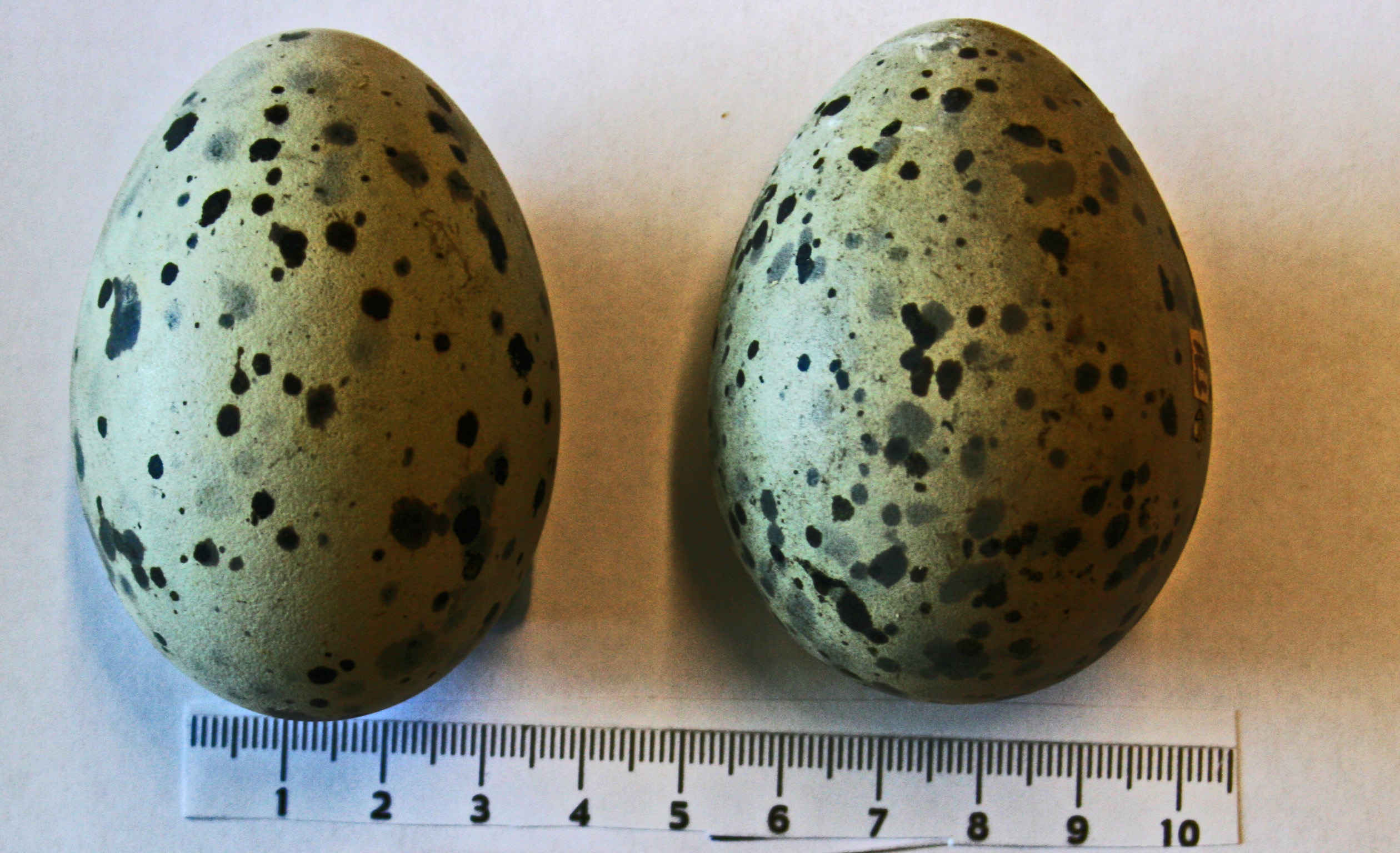 An image of Larus ridibundus eggs.